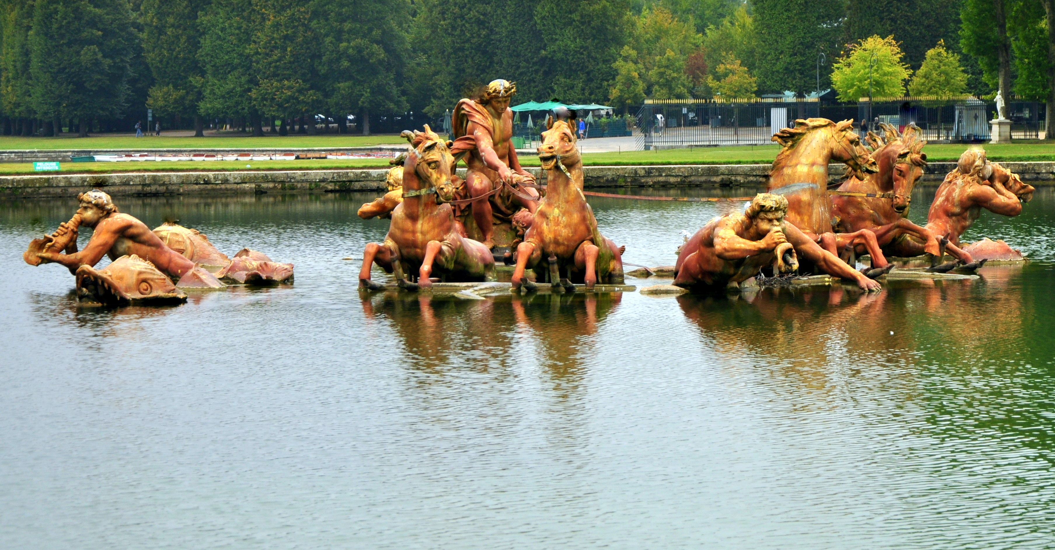 Jean-Baptiste Tuby - Fountain of Apollo, Palace of Versailles